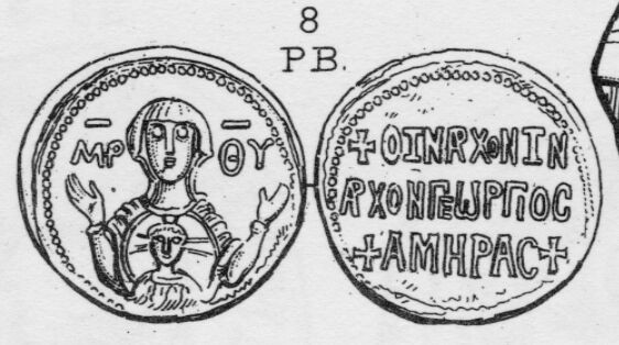 Seal of Sicilian Admiral George of Antioch. Obverse: the Theotokos with Christ, legend ΜΡ ΘV. Reverse: +Ο Τ(Ω)Ν ΑΡΧΟΝΤ(Ω)Ν / ΑΡΧΟΝ ΓΕωΡΓΙΟС /+ΑΜΗΡΑС+ ("Lord of Lords, George, Ameras")